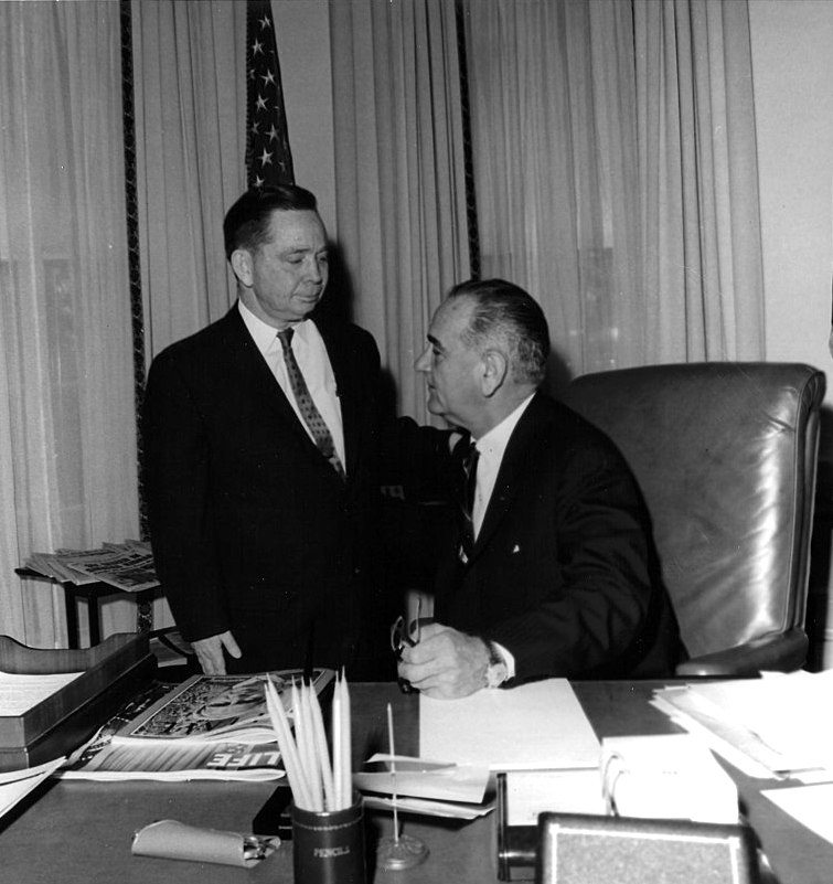 Cropped photograph of Majority Leader Carl Albert meeting with President Lyndon B. Johnson